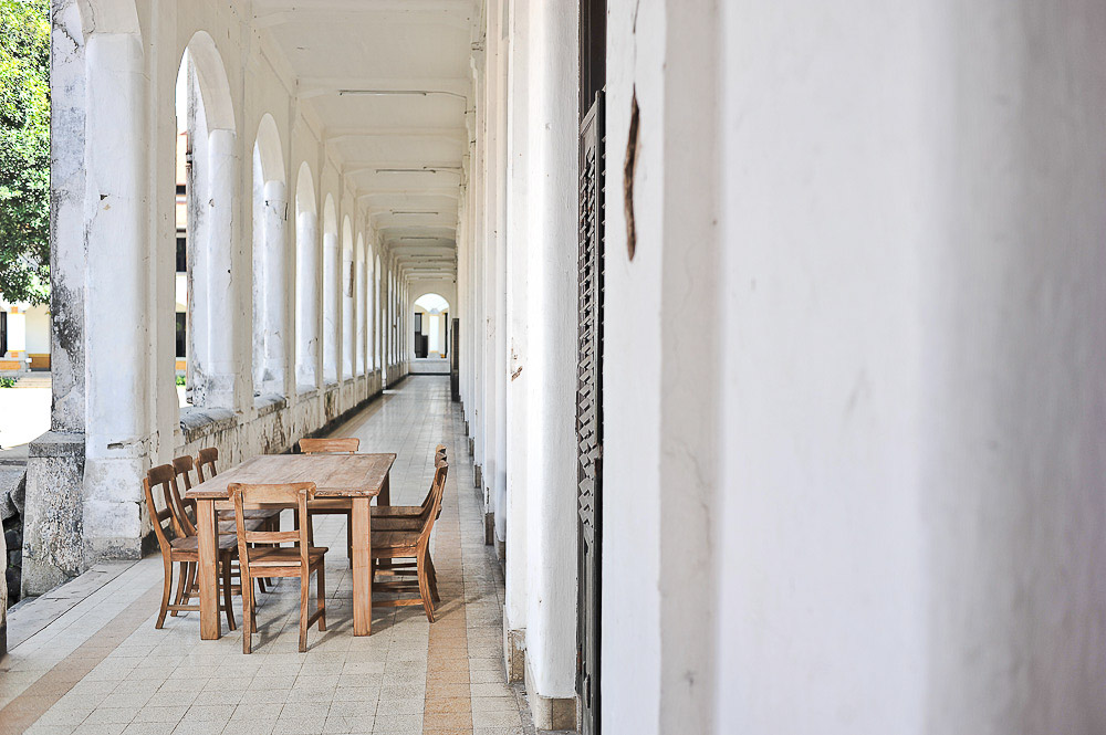 Teak table and chairs in hall of Lawang Sewu building, Semarang